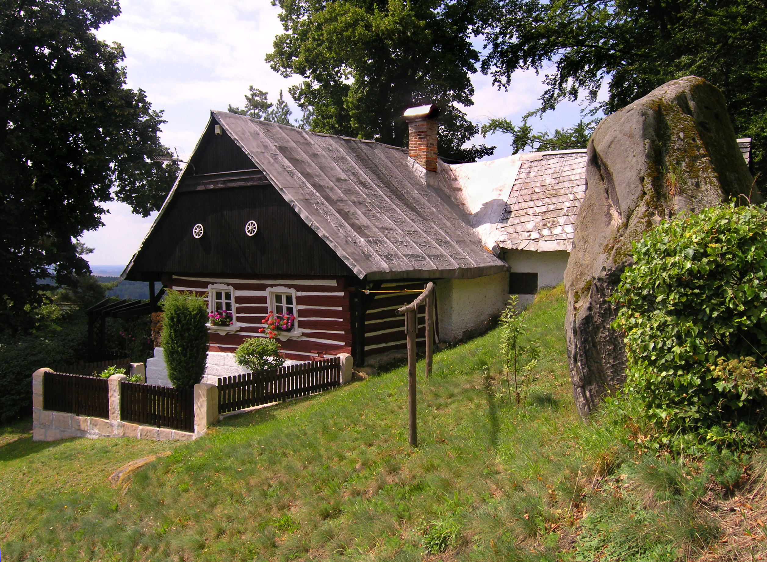 Zbirohy, part of Koberovy village, Czech Republic